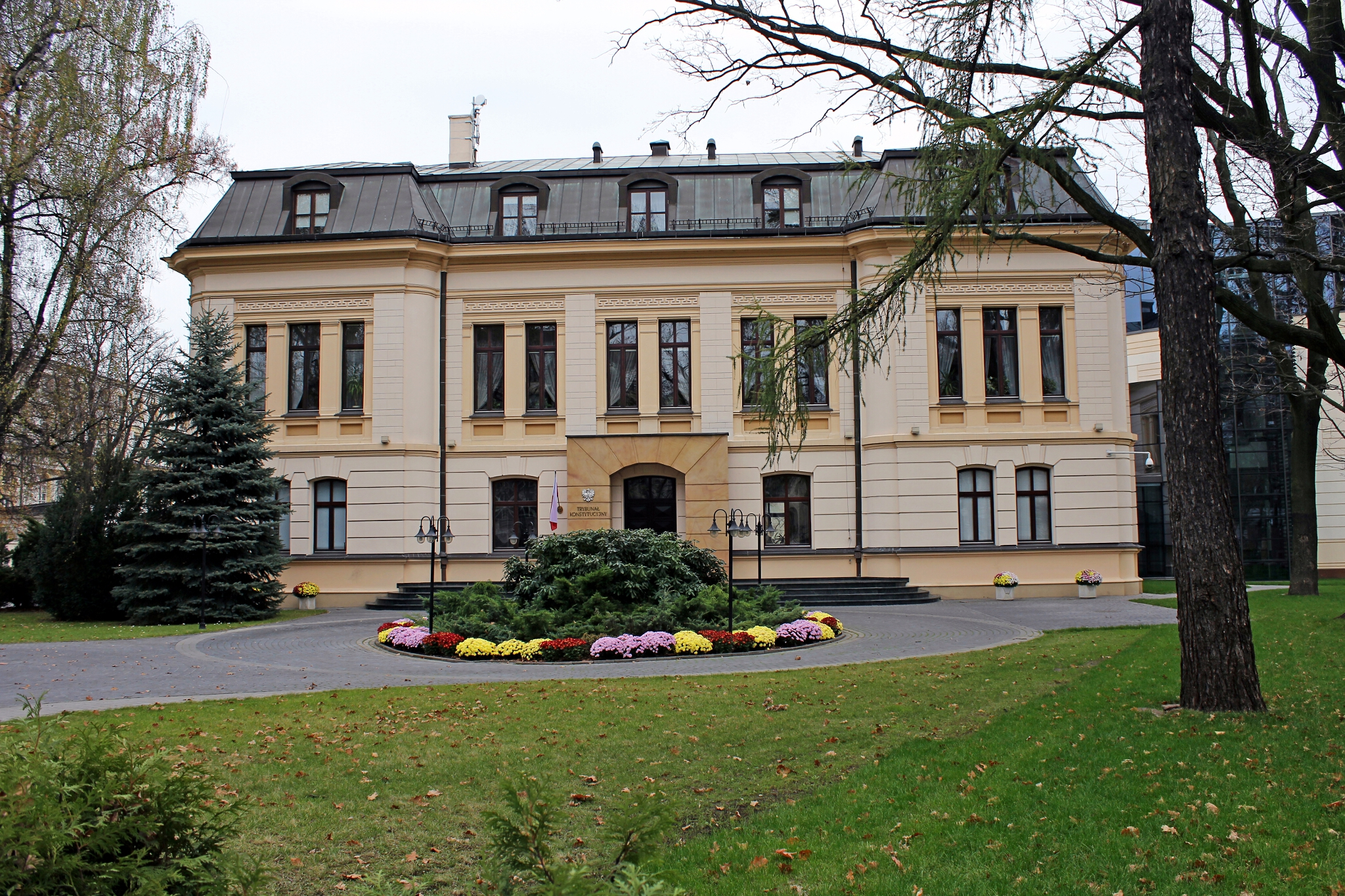 Wer dieses Bild benutzen möchte, der möge bitte den Link auf seiner Seite einbinden. If you want to use this picture, please implement the link on the website containing the picture.